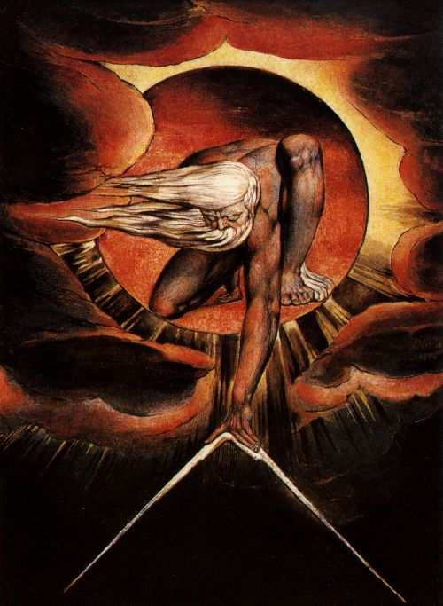 Blake, William The Ancient of Days (1794) Relief etching with watercolor 23.3 x 16.8 cm (9 1/8 x 6 7/8 in.) British Museum, London